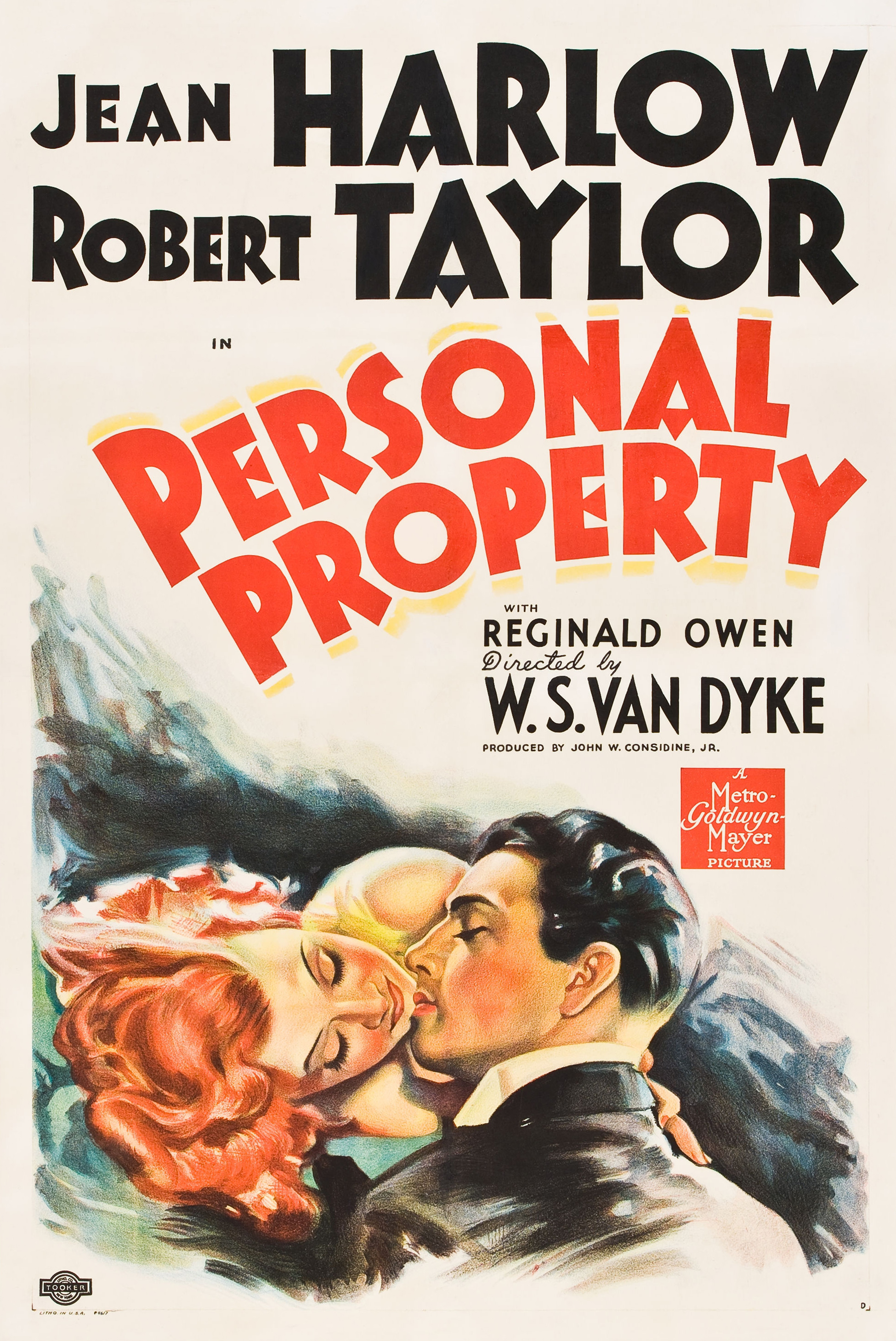 Poster for the 1937 Film Personal Property. The item has no copyright marks on it as can be seen at links and original upload. At bottom leftt is a logo for the Tooker Litho Compant--they printed the poster--Litho in USA and some numbers which probably refer to the poster's print job. At bottom right ia "D"-poster version D.